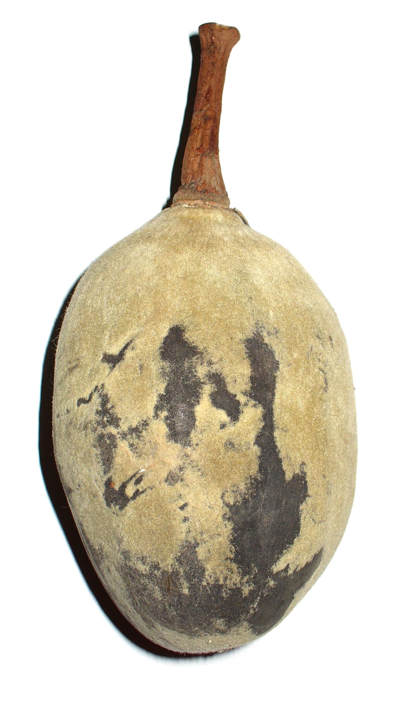 I am the originator of this photo. I hold the copyright. I release it to the public domain. This photo depicts a fruit.